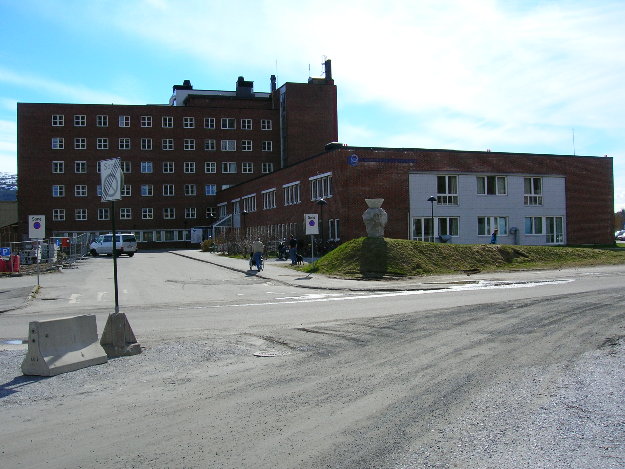 The department of Helgeland hospital on Selfors in Rana municipality, Nordland, Norway, Photo May 14, 2007 with a Nikon Coolpix 5600 5,1 Megapixel camera.(Selfors)